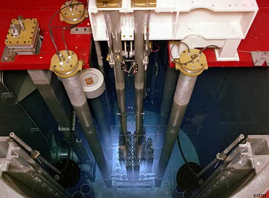 Neutron Radiography Reactor, Hot Fuels Examination Facility, Idaho National Laboratory. The Neutron Radiography Reactor is a 250 kW TRIGA reactor. It is equipped with two beam tubes and two separate radiography stations and used for neutron radiography irradiation of small test components. The blue glow is caused by Cherenkov radiation. The light water surrounding the core provides ample radiation protection for observers.